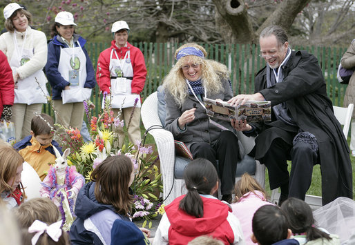 Children book authors Mary Pope Osborne and her husband Will Osborne read aloud to an ethusiastic crowd of young readers from her book, "American Tall Tales," Monday, April 9, 2007, during the 2007 White House Easter Egg Roll on the South Lawn.